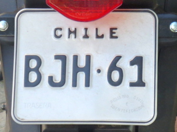 Chilean registration plate: motobike